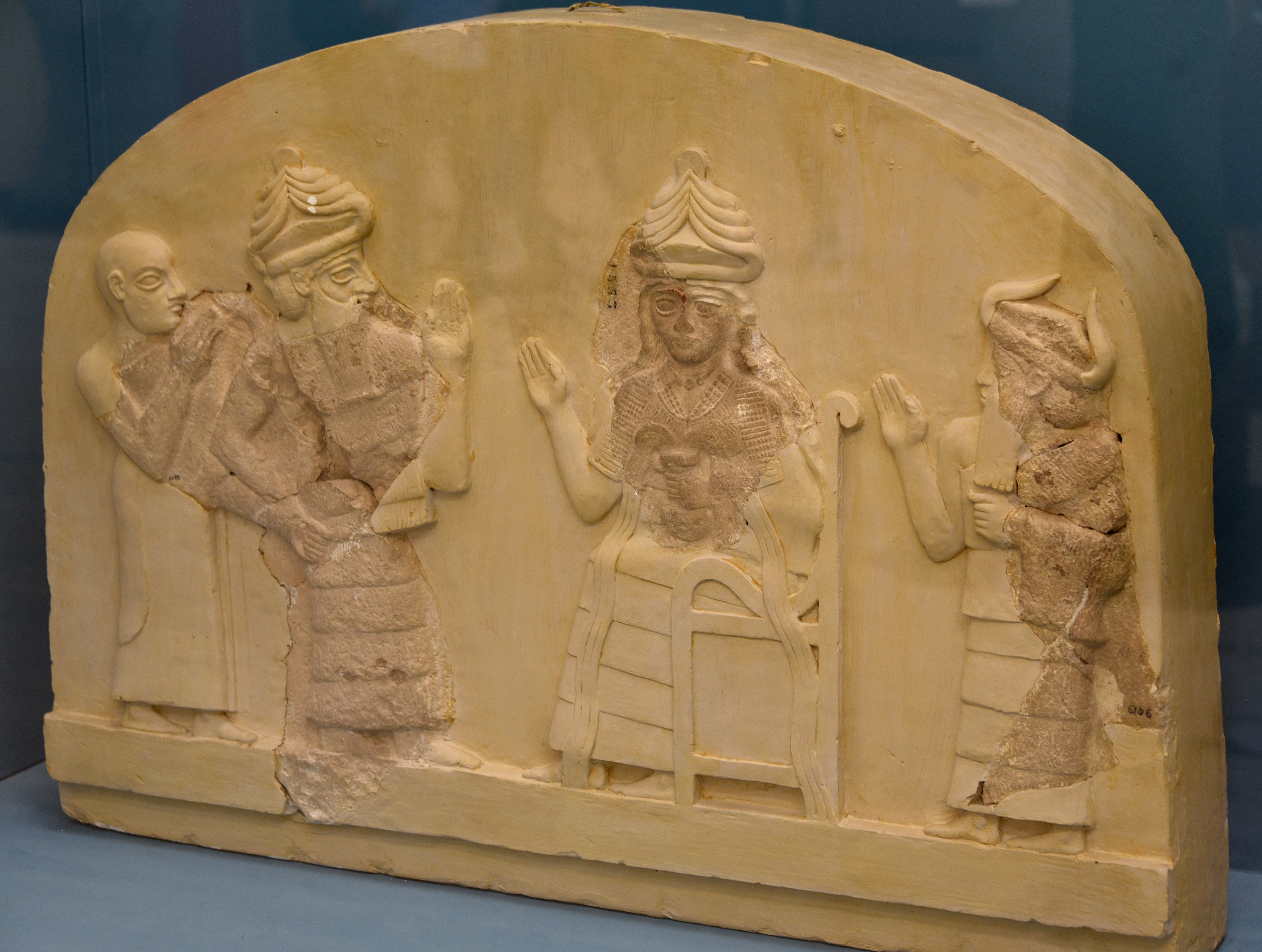 Votive stele of Gudea, ruler of Lagash, to the temple of Ningirsu. Extensively reconstructed. From Girsu (modern-day Tell Teloh), Southern Mesopotamia, Iraq. 2144-2124 BCE. Ancient Orient Museum, Istanbul.